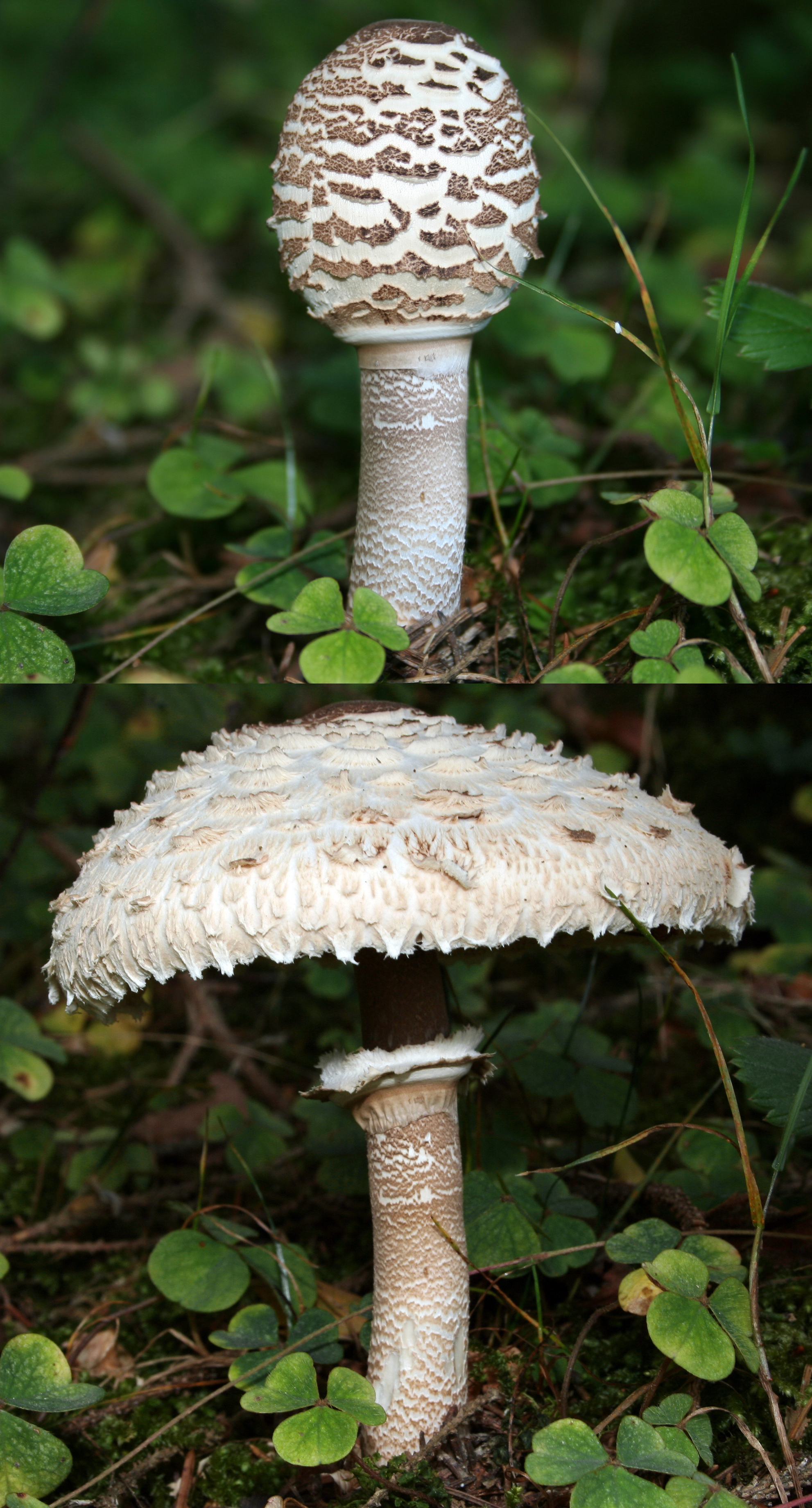 Parasol mushroom (growth in 7 days), Macrolepiota procera, Family: Agaricaceae, Location: Southern Germany, Ulm, Ringingen